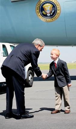 2006 Public Papers of George W. Bush – Meeting USA Freedom Corps volunteer Zach Bonner in Tampa, FL, September 21, 2006.